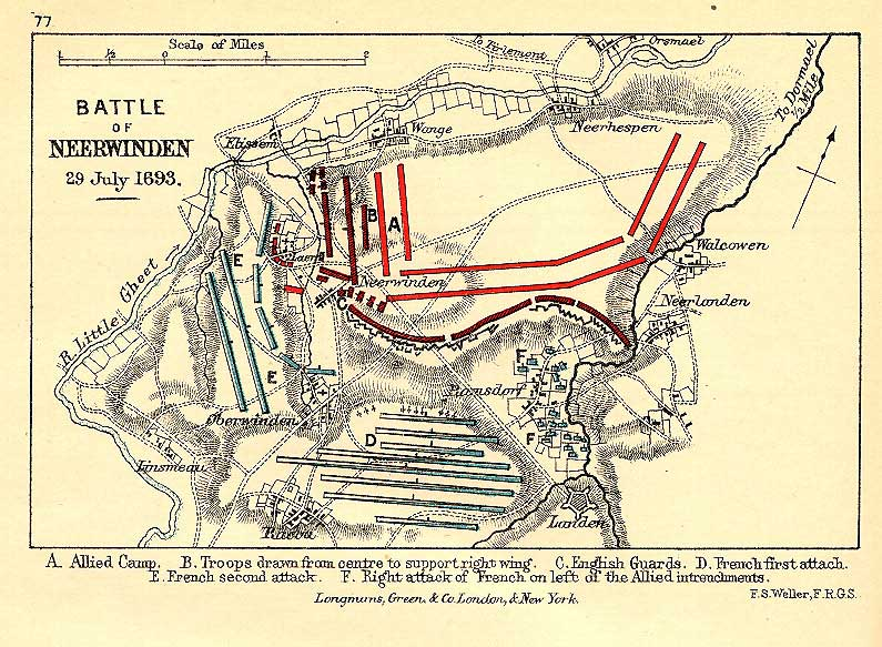 Map of the Battle of Neerwinden (Netherlands, 29th July 1693). Victory by the French under command of François-Henri de Montmorency-Luxembourg, over the united Netherlands and British armies under the command of Wilhelm III. (England) (William of Orange). Also called the Battle at Landen.